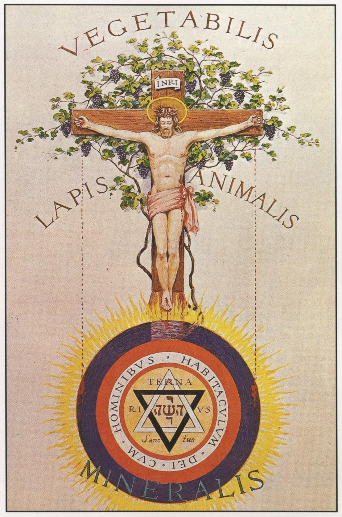 A Rosicrucian Crucifixion: The Solar Crucifixion—an outstanding example of the astronomical knowledge possessed by the so-called prehistoric world—“…our solar system is located at the heart of the Divine Man of the skies.” Ignoring the crucifixion in the literal sense, the Gnostics considered only its cosmic import. The agony of the Savior is not the agony of death, but the agony of birth. Only to him who has found his life by losing it is the mystery comprehensible. (Illustration in the book The Secret Teachings of All Ages by Manly P. Hall, published in 1928)